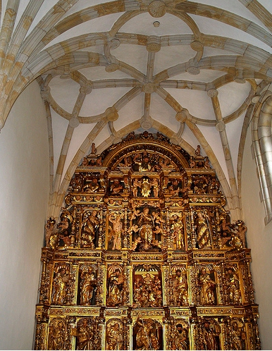 Universidad de Oñate, retablo la capilla de Sancti Spiritus. Su ejecución fue contratada en Valladolid en 1534 por el obispo de Ávila con el entallador Gaspar de Tordesillas, en tanto que de su dorado y estofado se debieron encargar al año siguiente los pintores abulenses Jerónimo Rodríguez y Cristóbal de Bustamante. (Descripción tomada de Wikipedia).